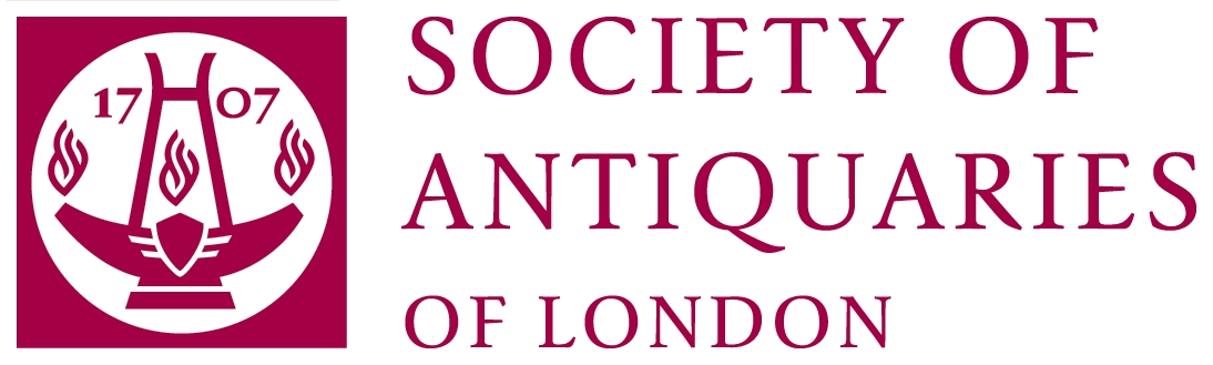 This is the official logo of the Society of Antiquaries of London (registered charity 207237).